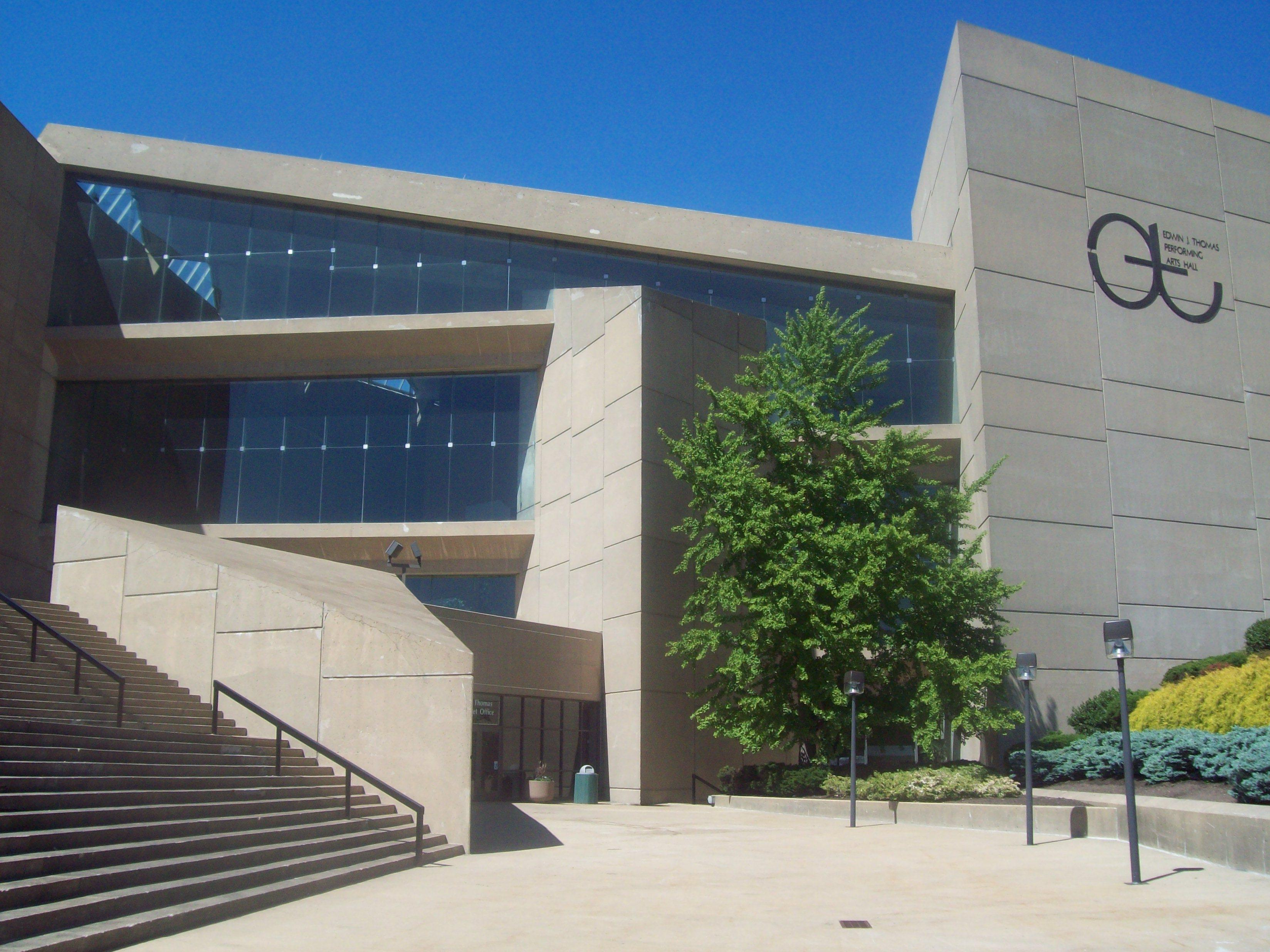 Thomas Perfomance